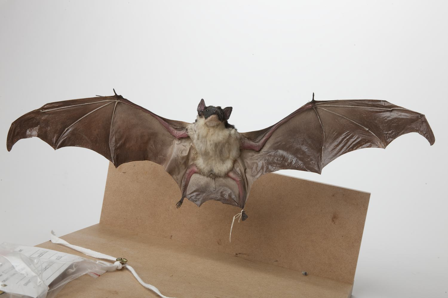 Saccolaimus flaviventris, Yellow-belled Sheathtail Bat, mounted specimen